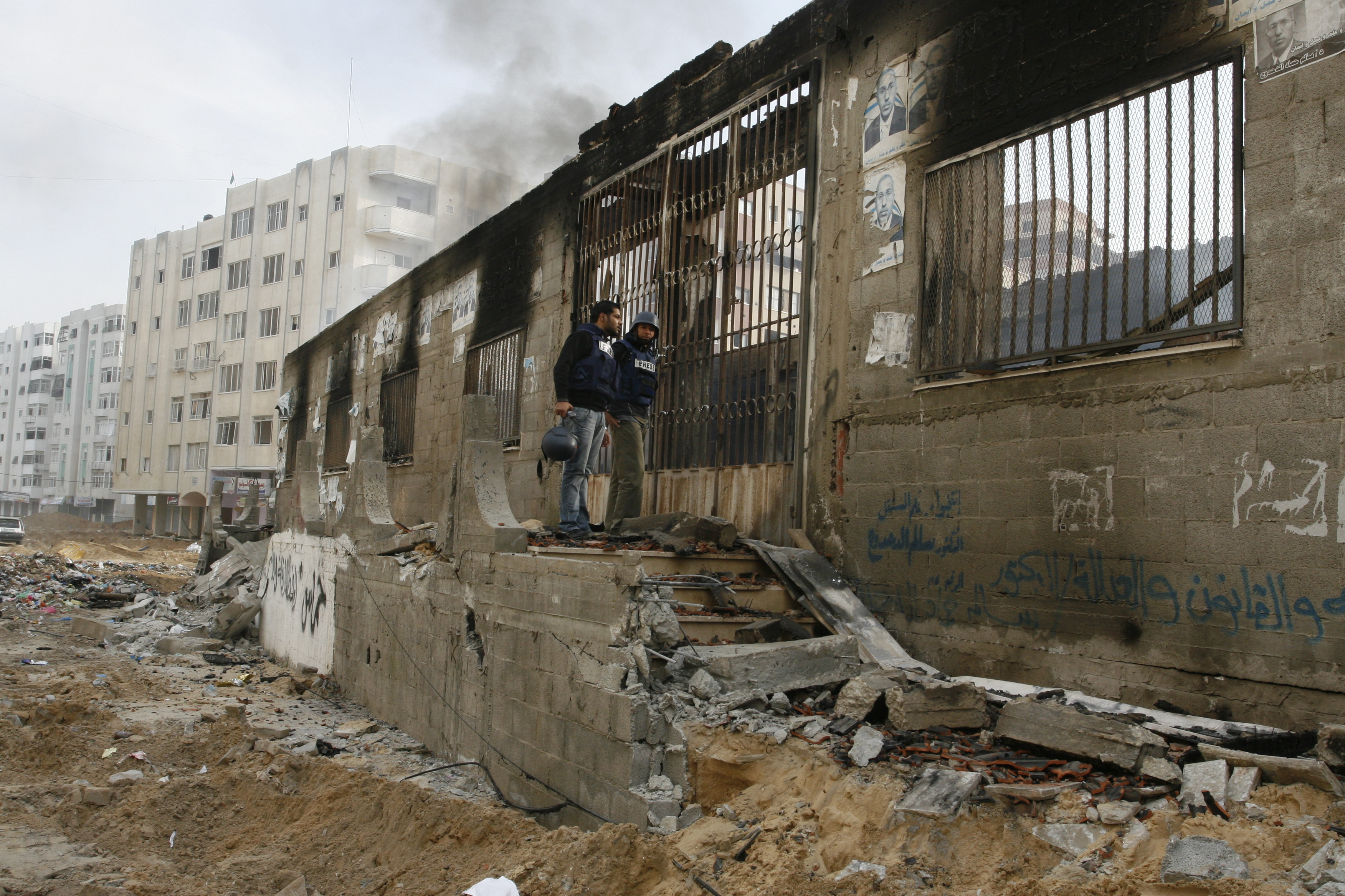 Ayman Mohyeldin and Wissam Hamad inspecting the burned out medical storage facility of the Palestinian Red Crescent after it was burned by the Israeli military.